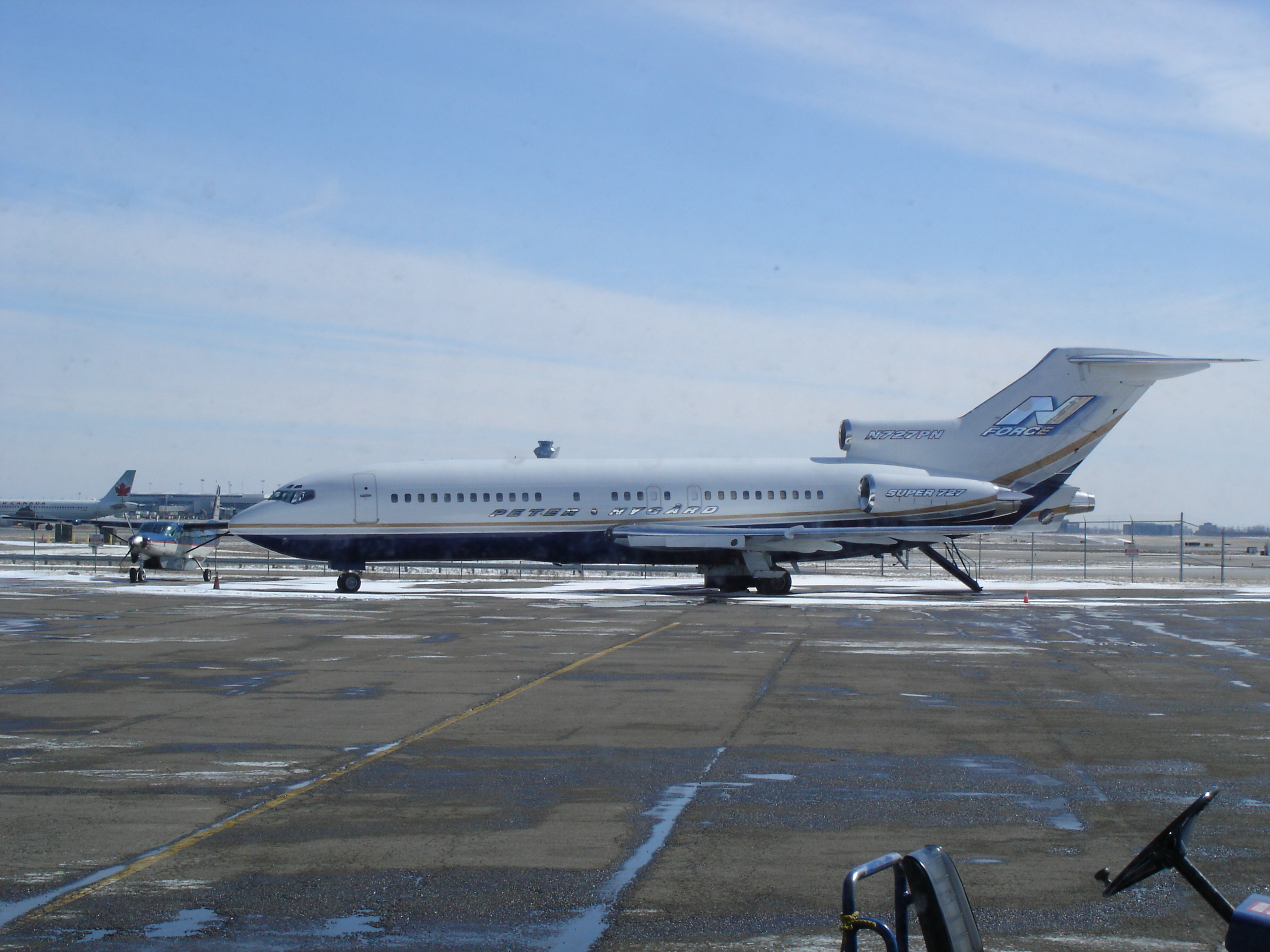 Peter Nygård's private Boeing 727-100 (N727PN)